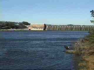 Lay Dam on The Coosa River, Shelby County, Alabama. Photo by Mike Cline December 12th, 1996